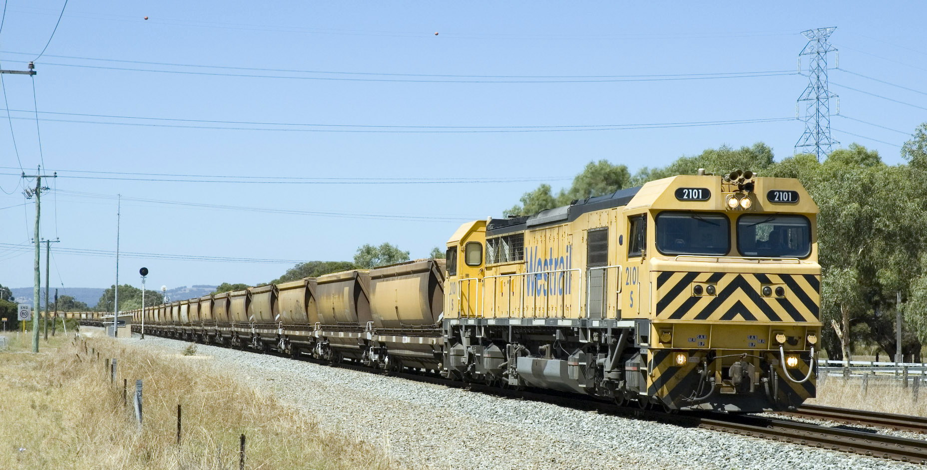 Australian Railroad Group locomotive S2101 on 962 bauxite train at Wellard, Western Australia.